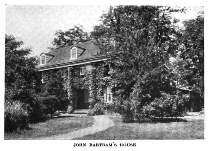 Photograph of John Bartram's House circa 1919